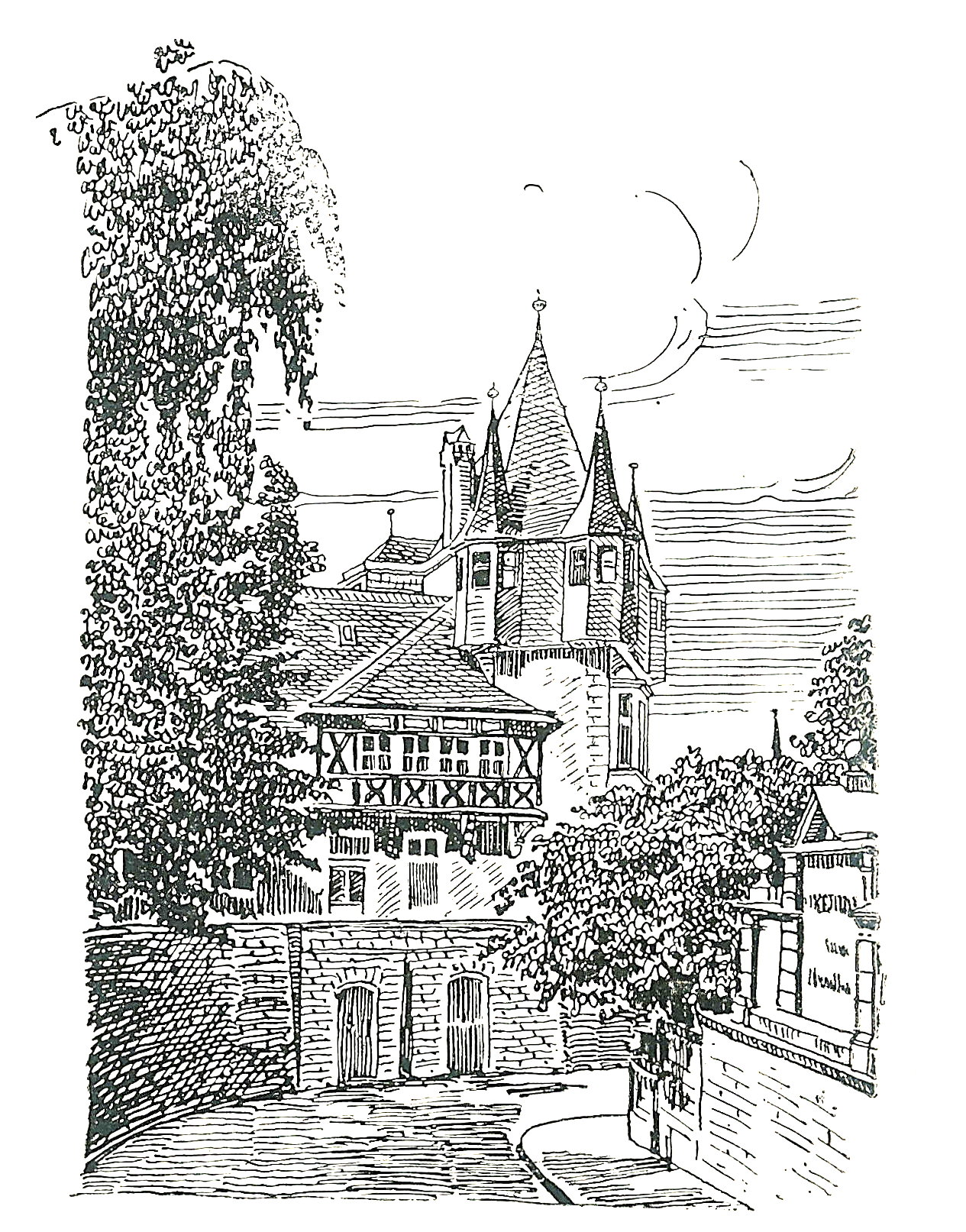 House of former student fraternity Corps Vandalia Heidelberg (Germany), Neue Schlossstrasse 2